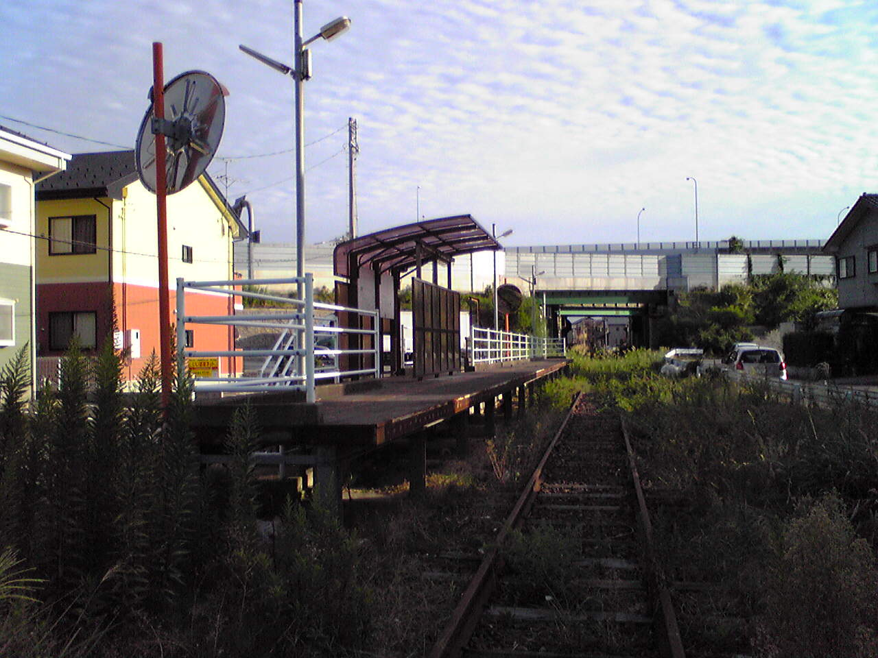 Site of Tokimeki Station, Niigata Kotsu Railway which was abolished on 5 April 1999